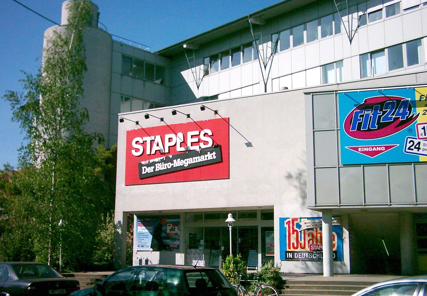 Staples store in Hamburg, Germany.